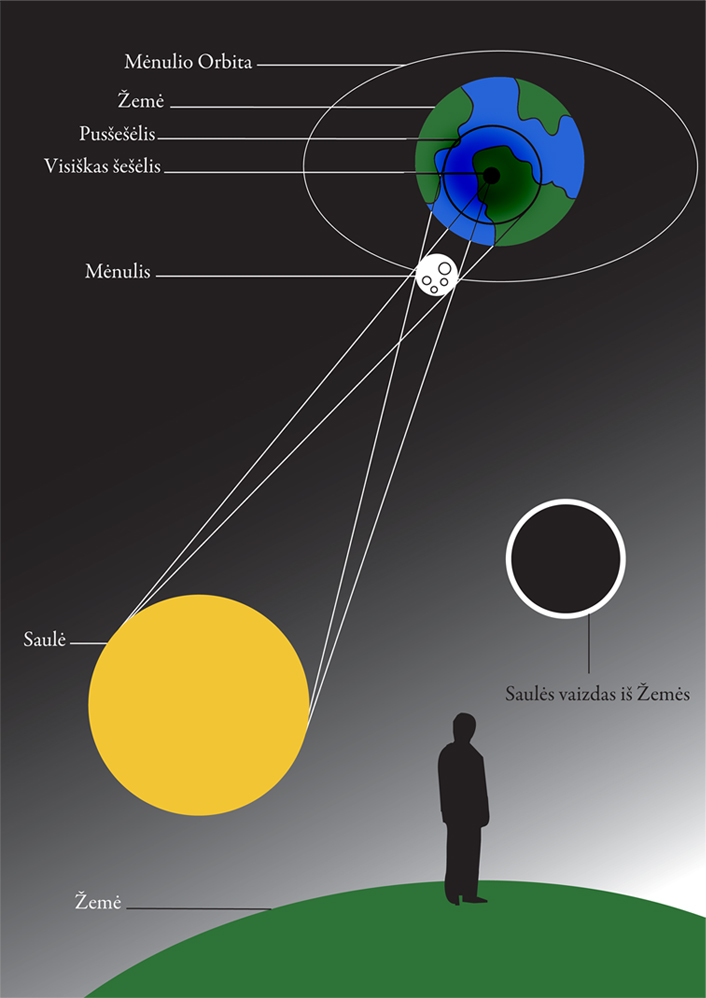 Saulės užtemimas